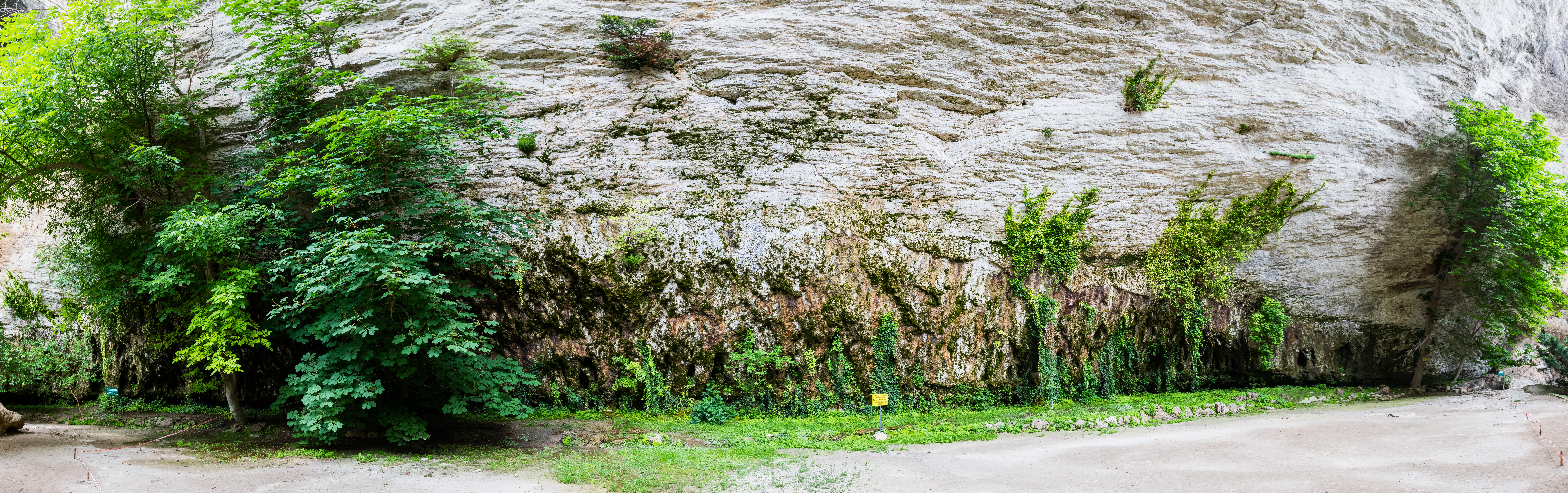 Big Cave, Historical arqueological national preserve of Madara, Bulgaria